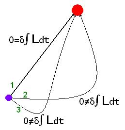 Author: User Fmercury1980 using Microsoft Paint This image illustrates the principle of least action: At one side there is a fixed positive charge. On the other side there is a free electron. Of all the possible trajectories, the electron choses that one in which the time integral of the Lagrangian funcion is minimal.